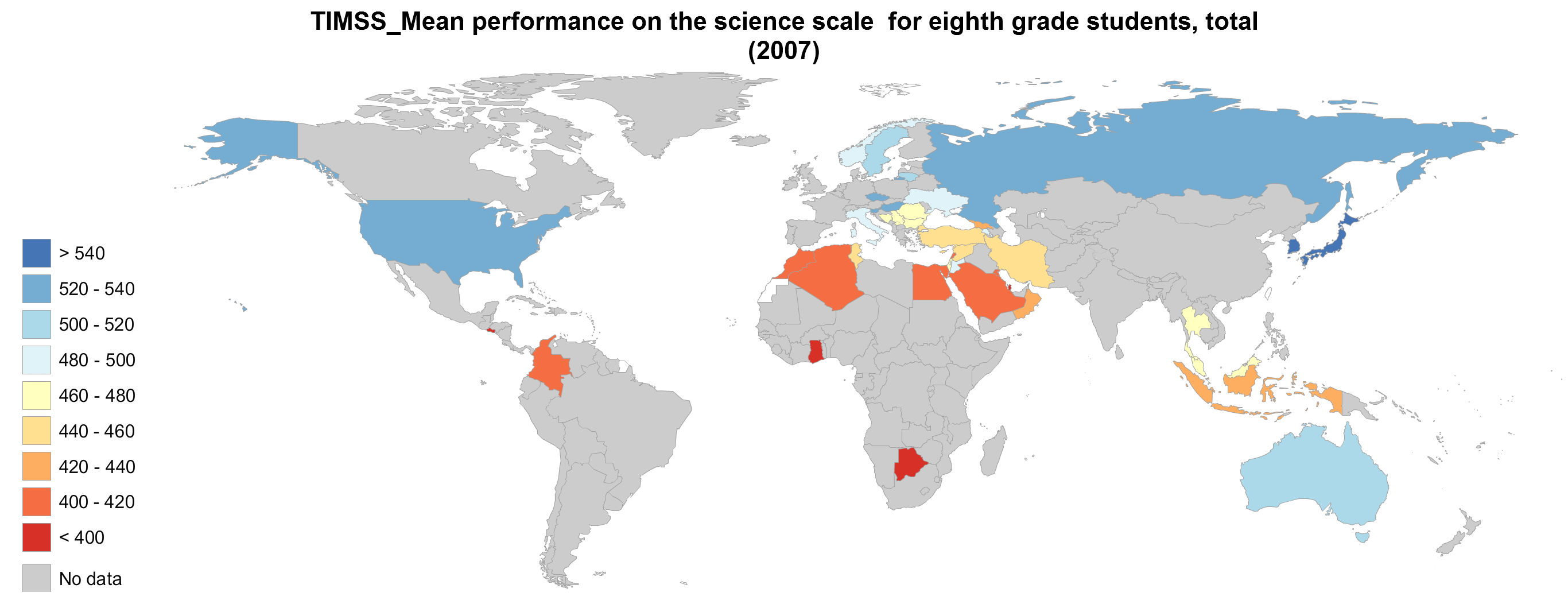 "Trends in International Mathematics and Science Study" 2007 8th Grade Students average Science scores